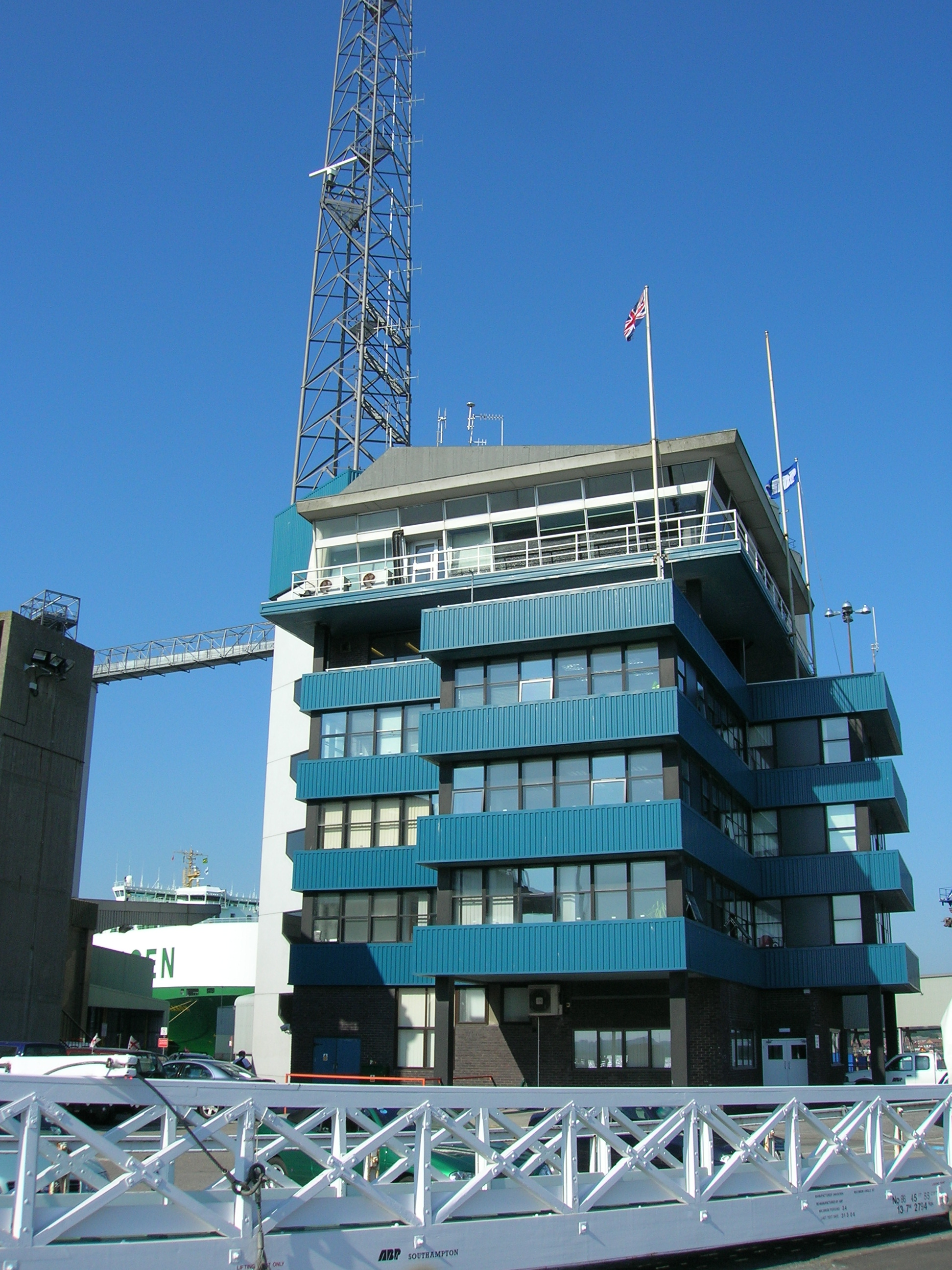 The control tower of Southampton harbour, on berth number 36.